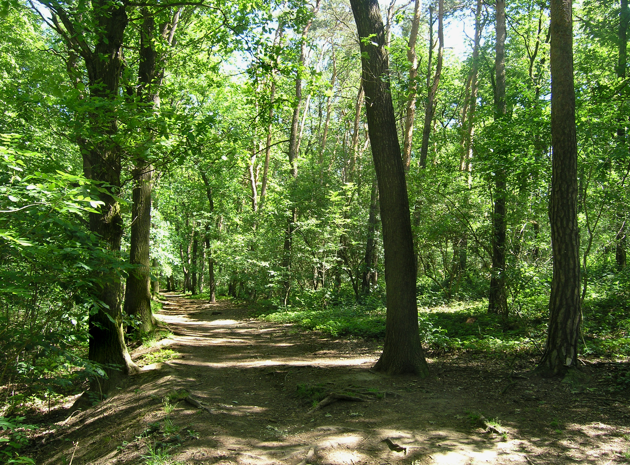 Forest beside Kamýk, Prague